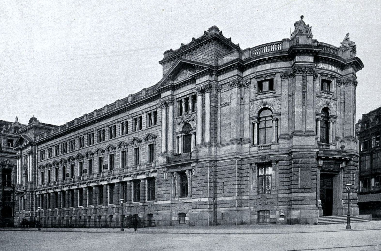 t